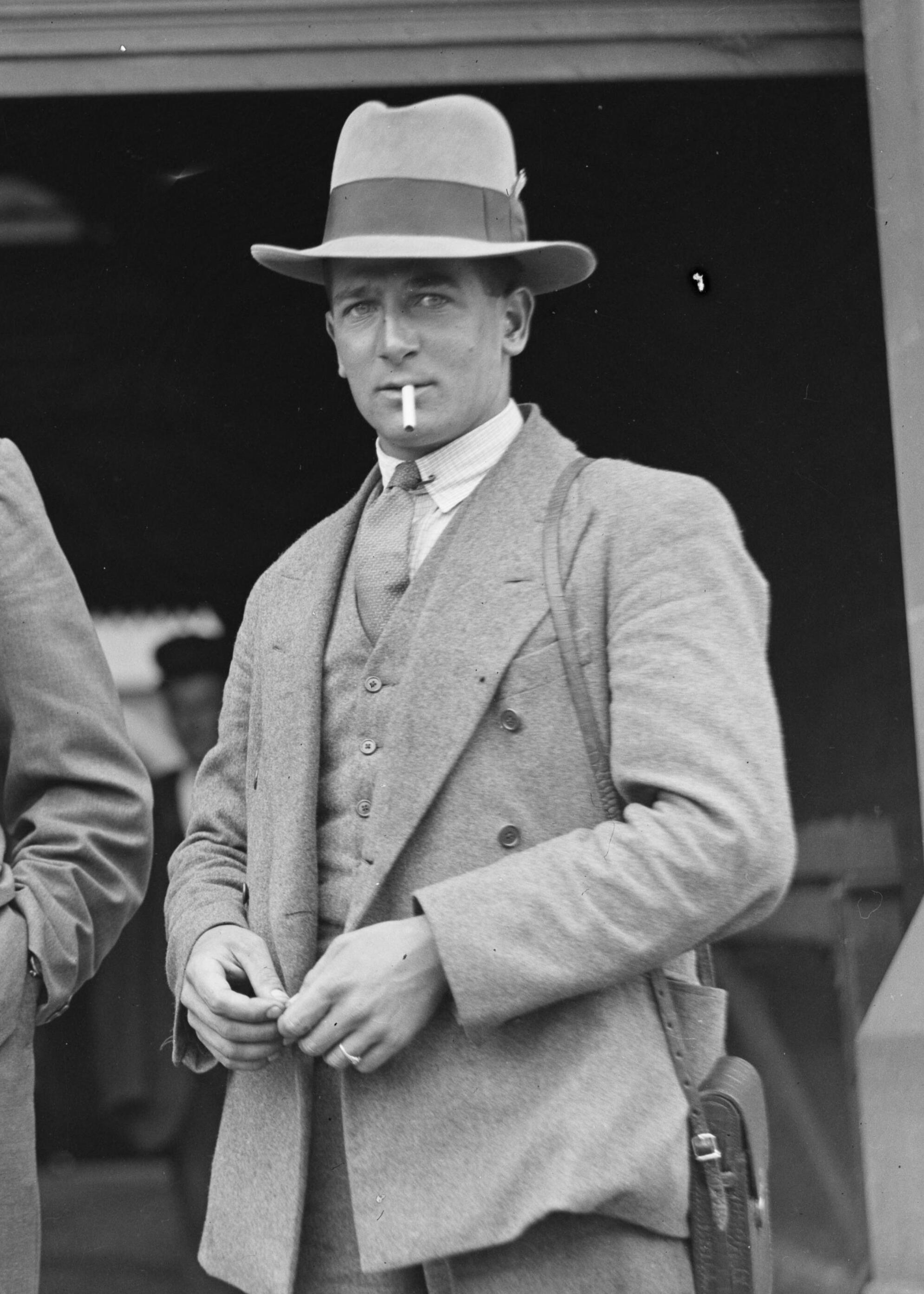 English cricketer Harold Larwood at a train station, New South Wales